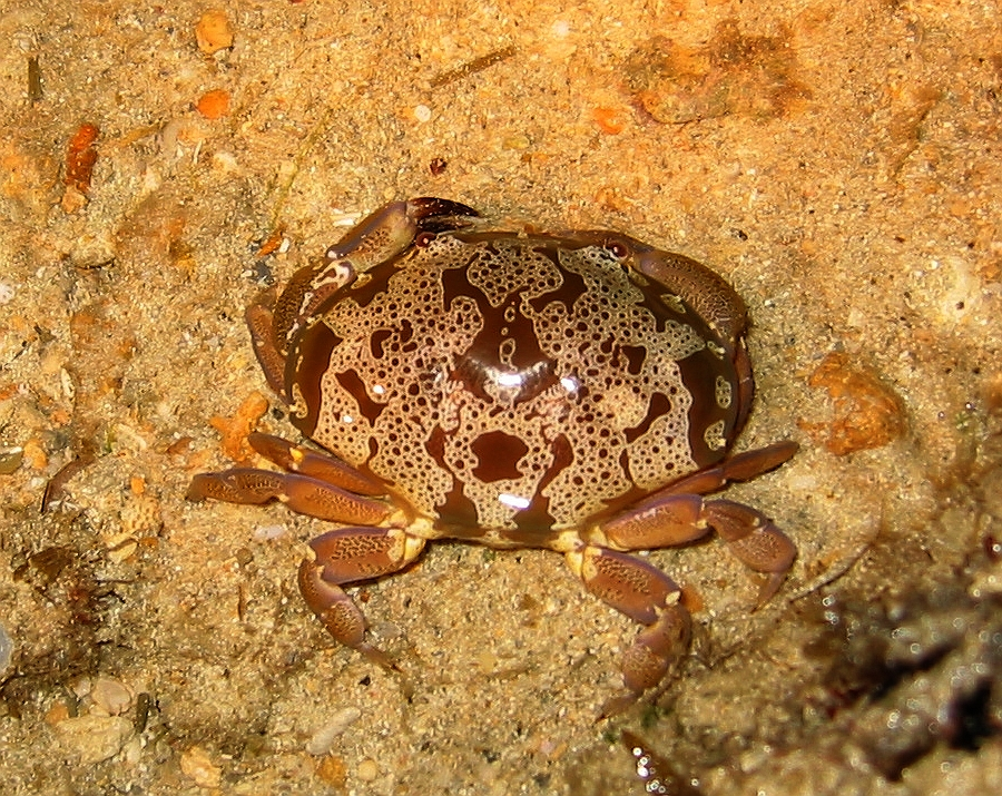 Atergatis floridus, toxic tiny crab. The photo was taken at Haemida beach, Iriomote island, Japan.